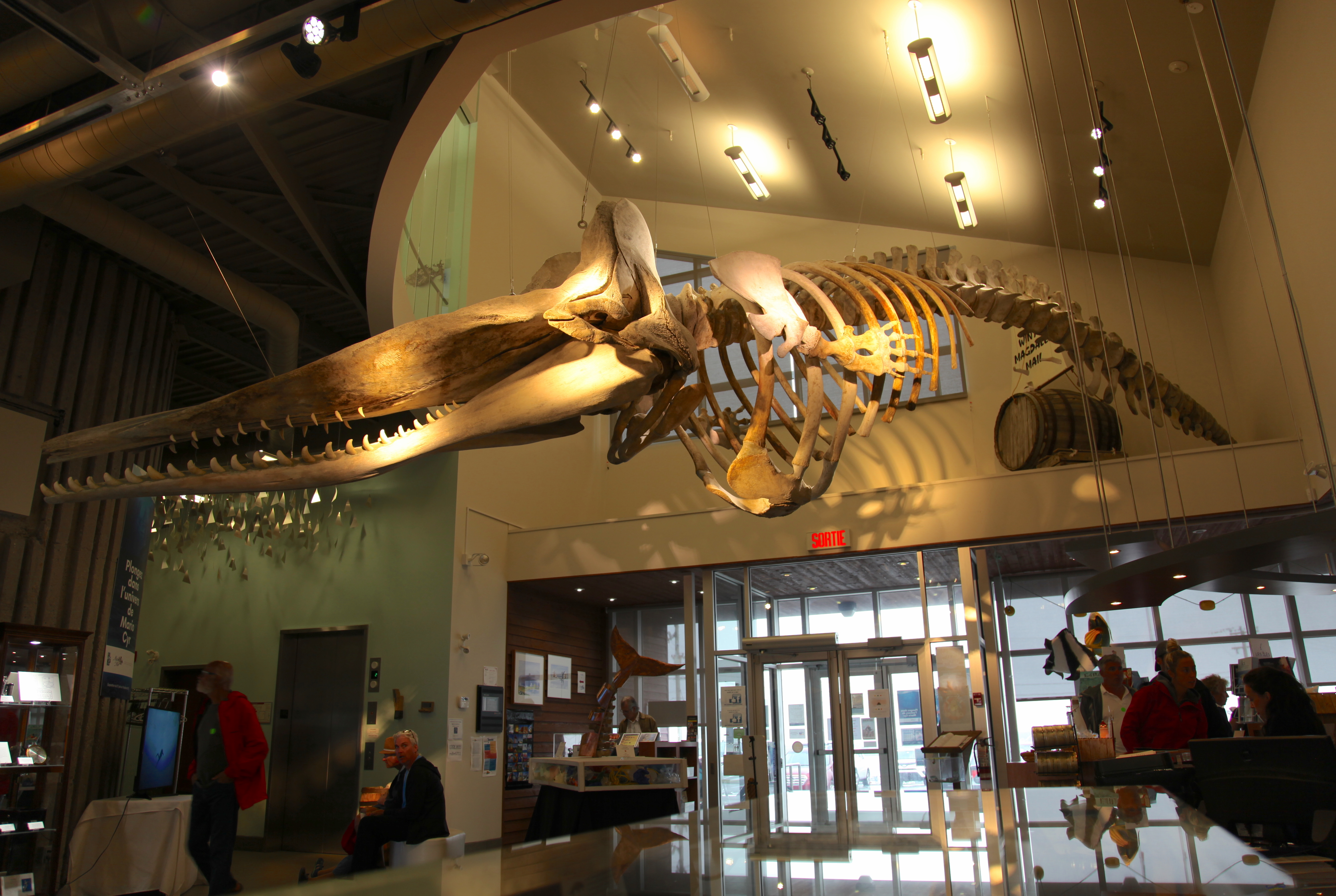 Skeleton of a sperm whale of 15 m length. In May 2008, a sperm whale stranded on the beach of Pointe-aux-Loups on Magdalen Islands in the province of Quebec. We noticed that he was around 30 years old. In December 2014, the well cleaned 215 bones were exposed in the entrance hall of the museum "Musée de la Mer", situated in Havre-Aubert on Cape Gridley.